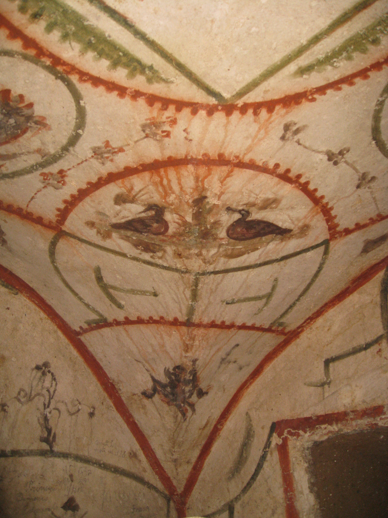 Via Appia, Italy, Jewish Catacombs